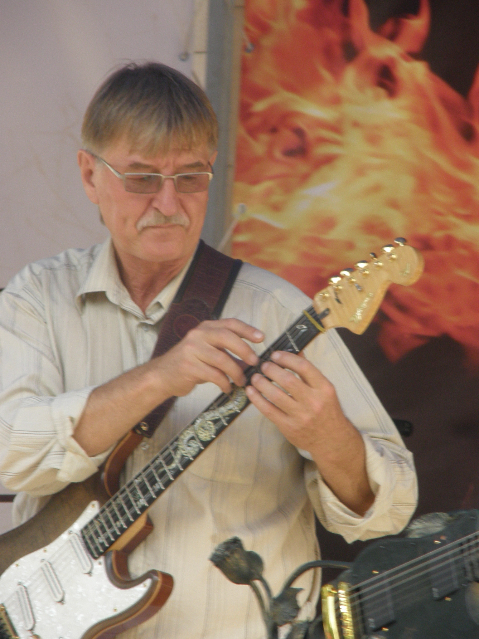 Enver Izmaylov show on smithcraft festival in Donetsk, 2010